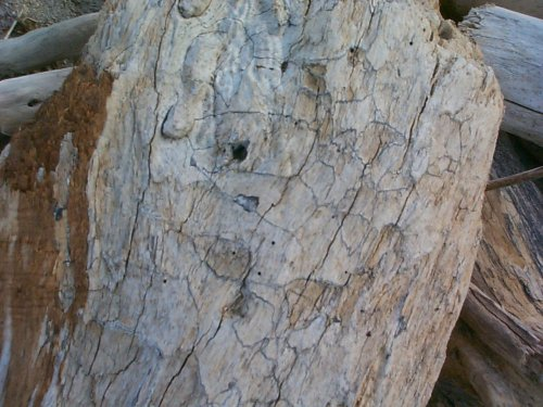 Fungal zone lines in driftwood - photograph taken on beach in New Zealand - 1998 by Tim Adams.